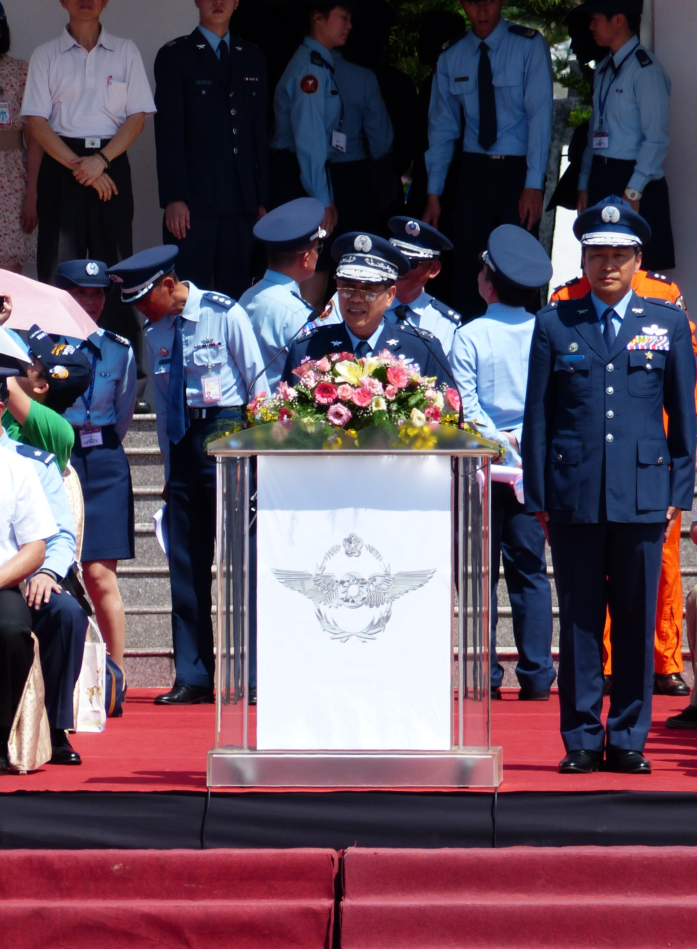 General Liu Chen-wu